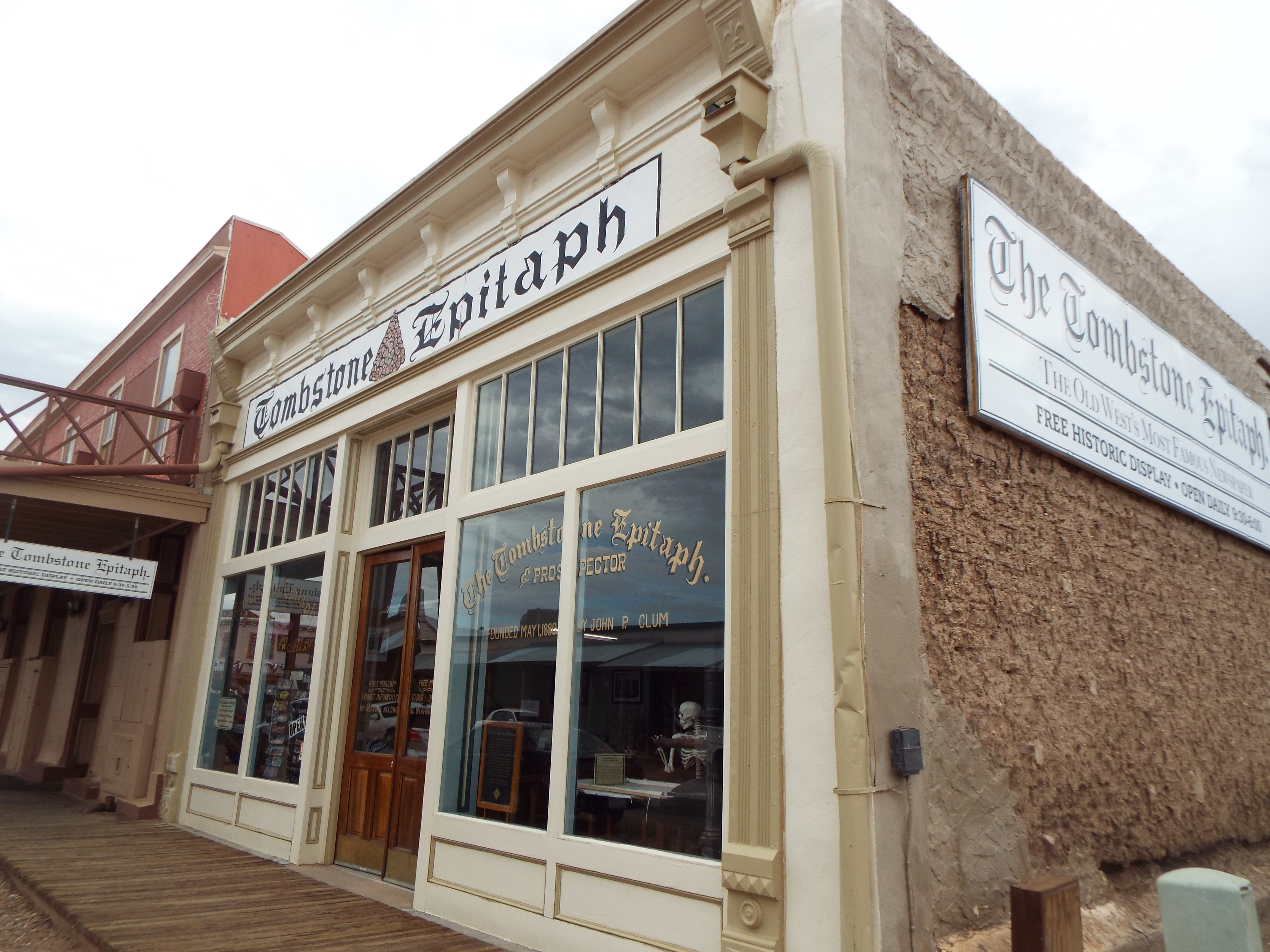 Tombstone Epitaph Building-1880-in Tombstone, Arizona